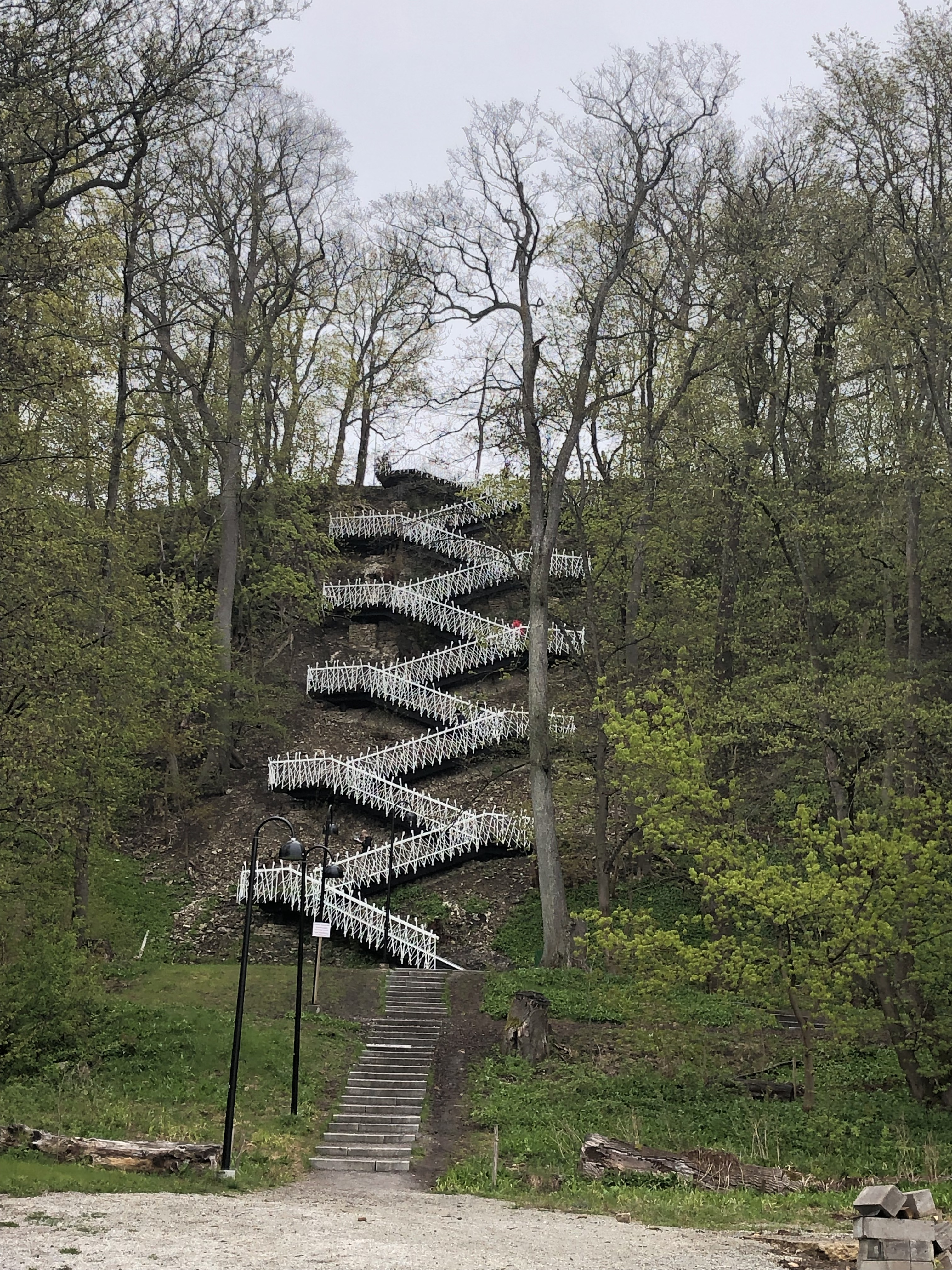 Viimsi